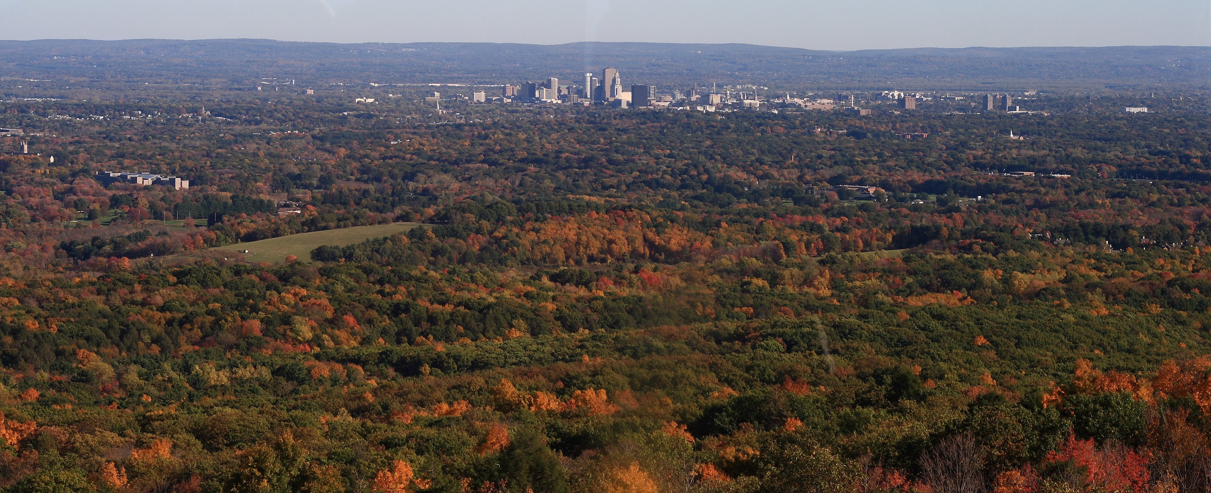 Hartford, Connecticut, seen from the top of Heublein Tower